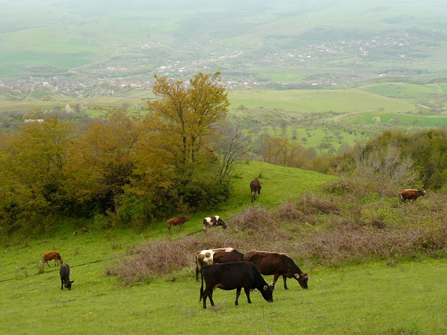 Qirmizi Bazar village (the village is on the back)